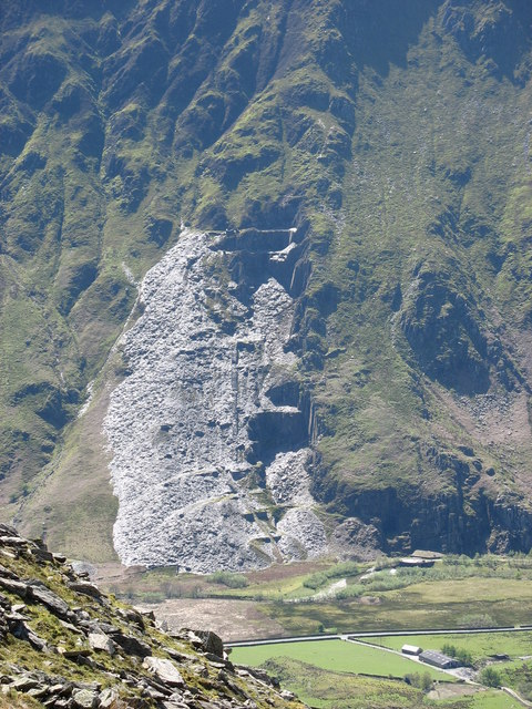 Chwarel Gallt-y-Llan Quarry. A small quarry employing a handful of men which was worked intermittently between the 1810s and 1940. The slate tended to be of an inferior quality due to high sulphur content. The main incline can be seen very clearly in the photograph.